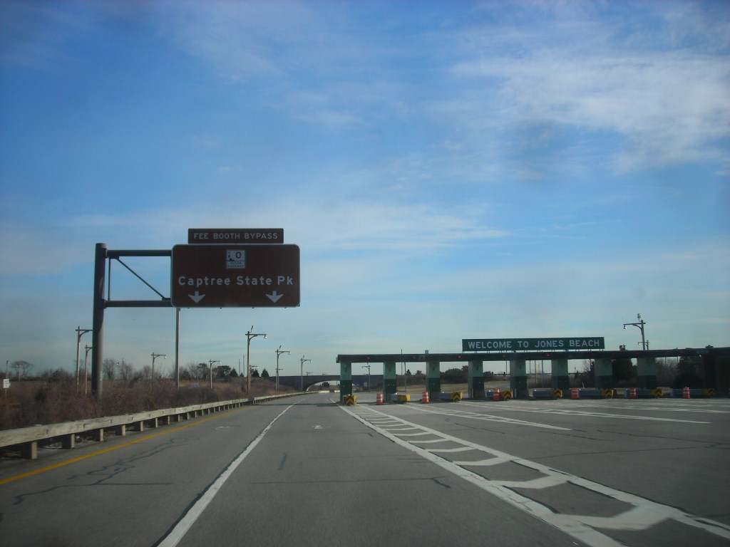 Meadowbrook State Parkway southbound at the toll-barrier for parking access to Jones Beach.